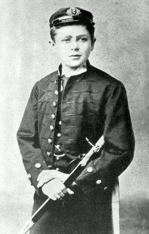 Robert Falcon Scott at age of 13 as a naval cadet, in the year 1882 with navy dagger.